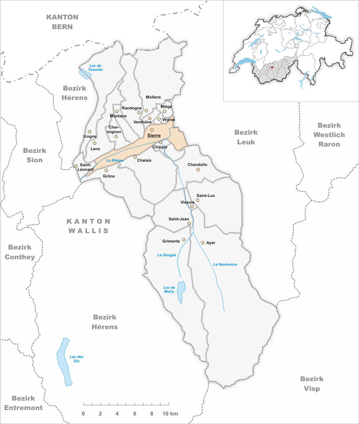 Municipality Sierre